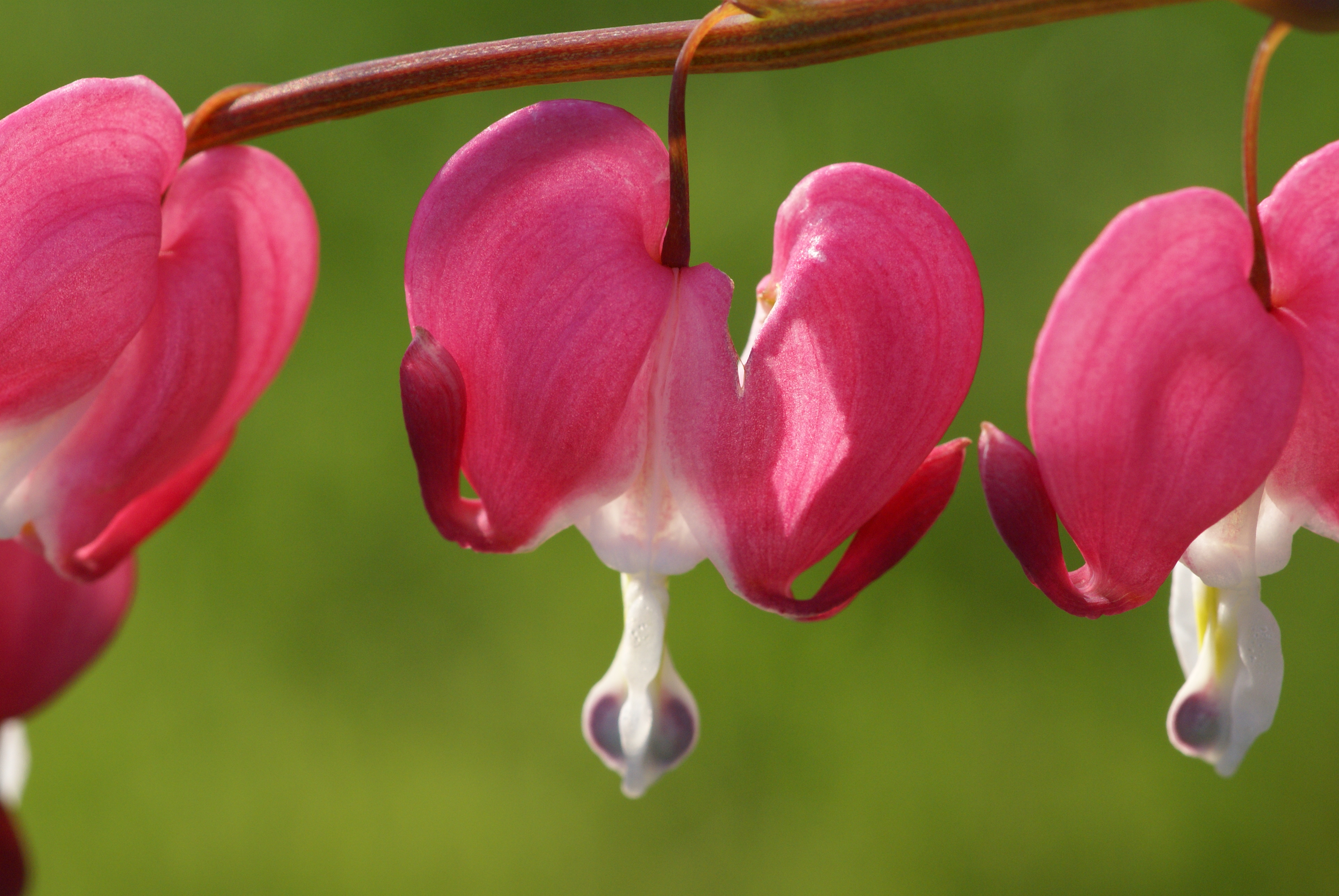 Petals of the Dicentra spectabilis flower, commonly known as a bleeding heart. Sunlight is seen passing through the petals. Taken with a Sony A100 camera using a Sony 2.8/100 Macro lens. Image has not been edited.